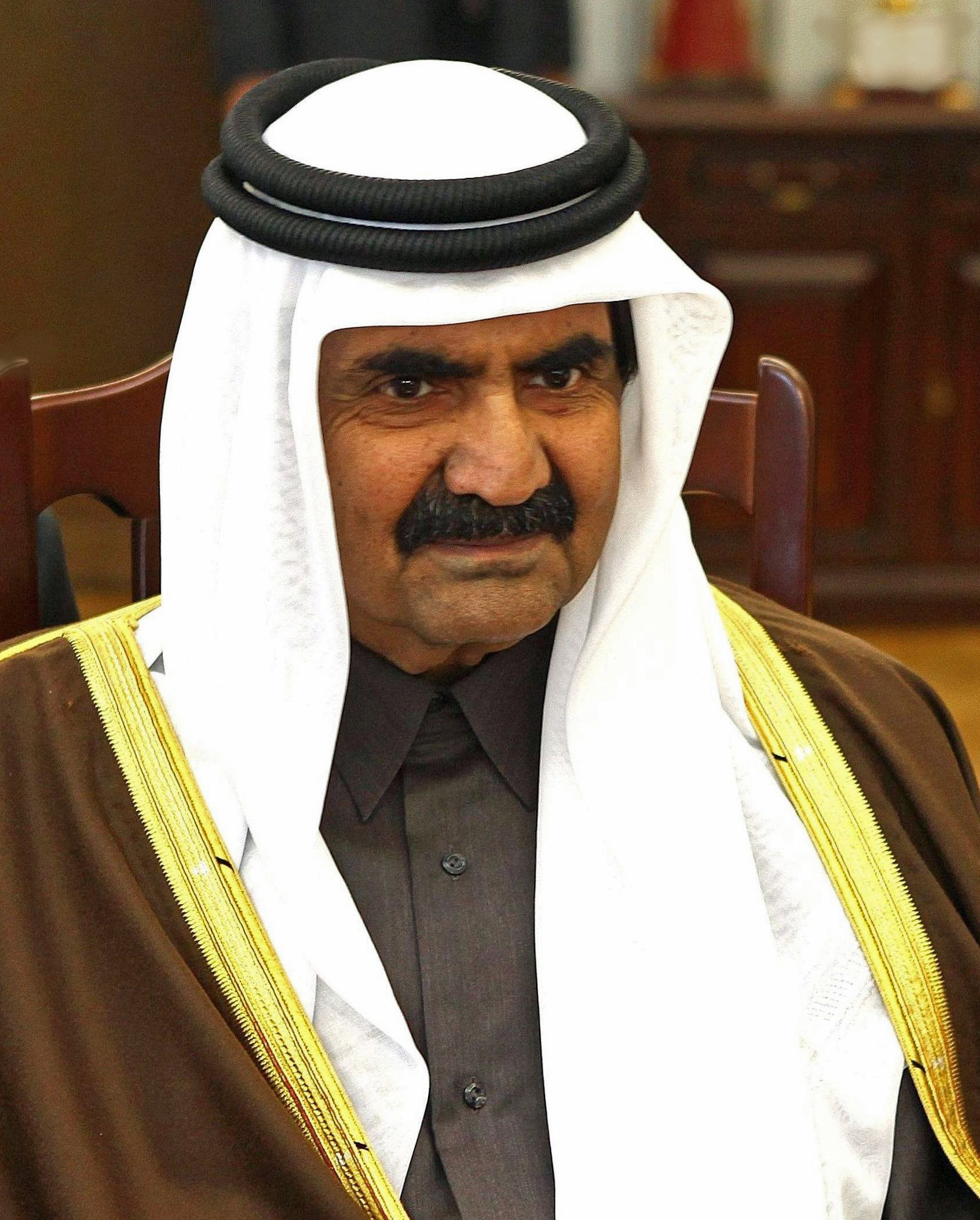 Emir of the State of Qatar Hamad bin Sheikh Khalifa Al Thani in the Polish Senate